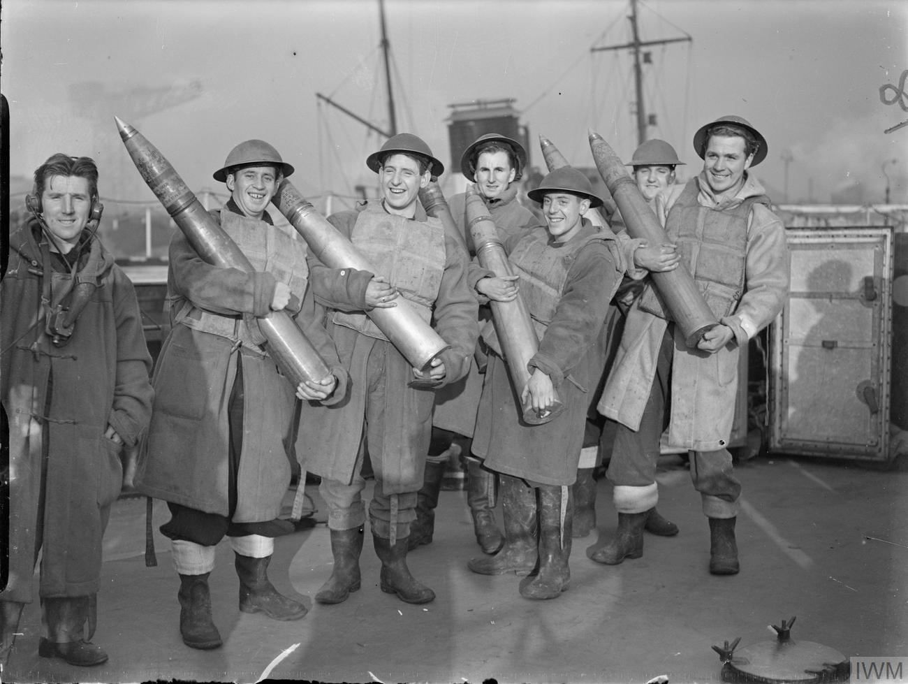 The gun crew of British V class destroyer HMS VIVIEN displaying shells for the QF 4 inch Mk XVI guns with which they shot down 1 enemy aircraft and severely damaged another during an attack on a British convoy on 11th November 1940.